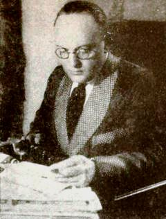 Artist and film director Hugo Ballin, on page 115 of the April 1922 Photoplay.